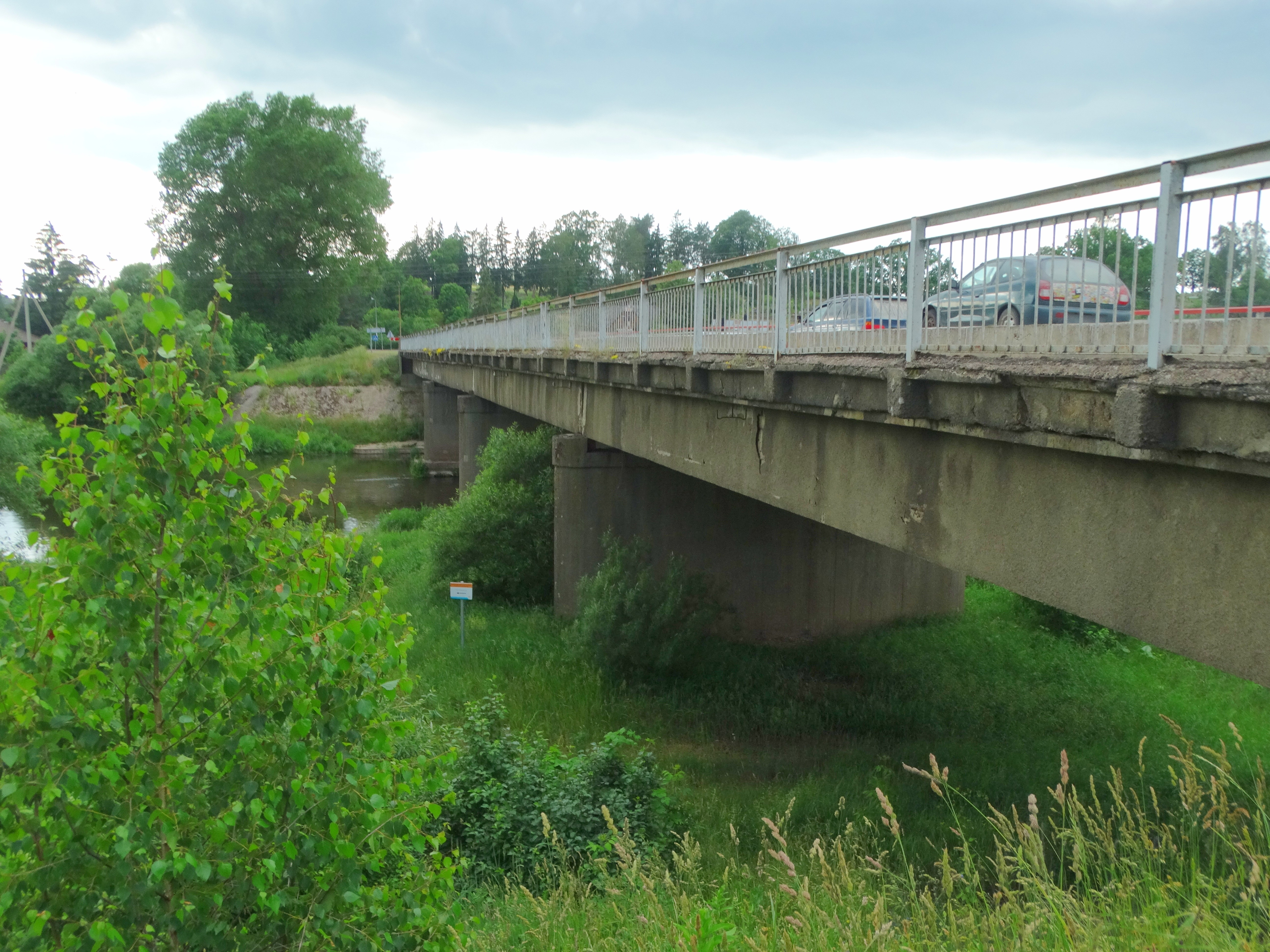 Bridge on Šventoji River, Kavarskas, Anykščiai district, Lithuania